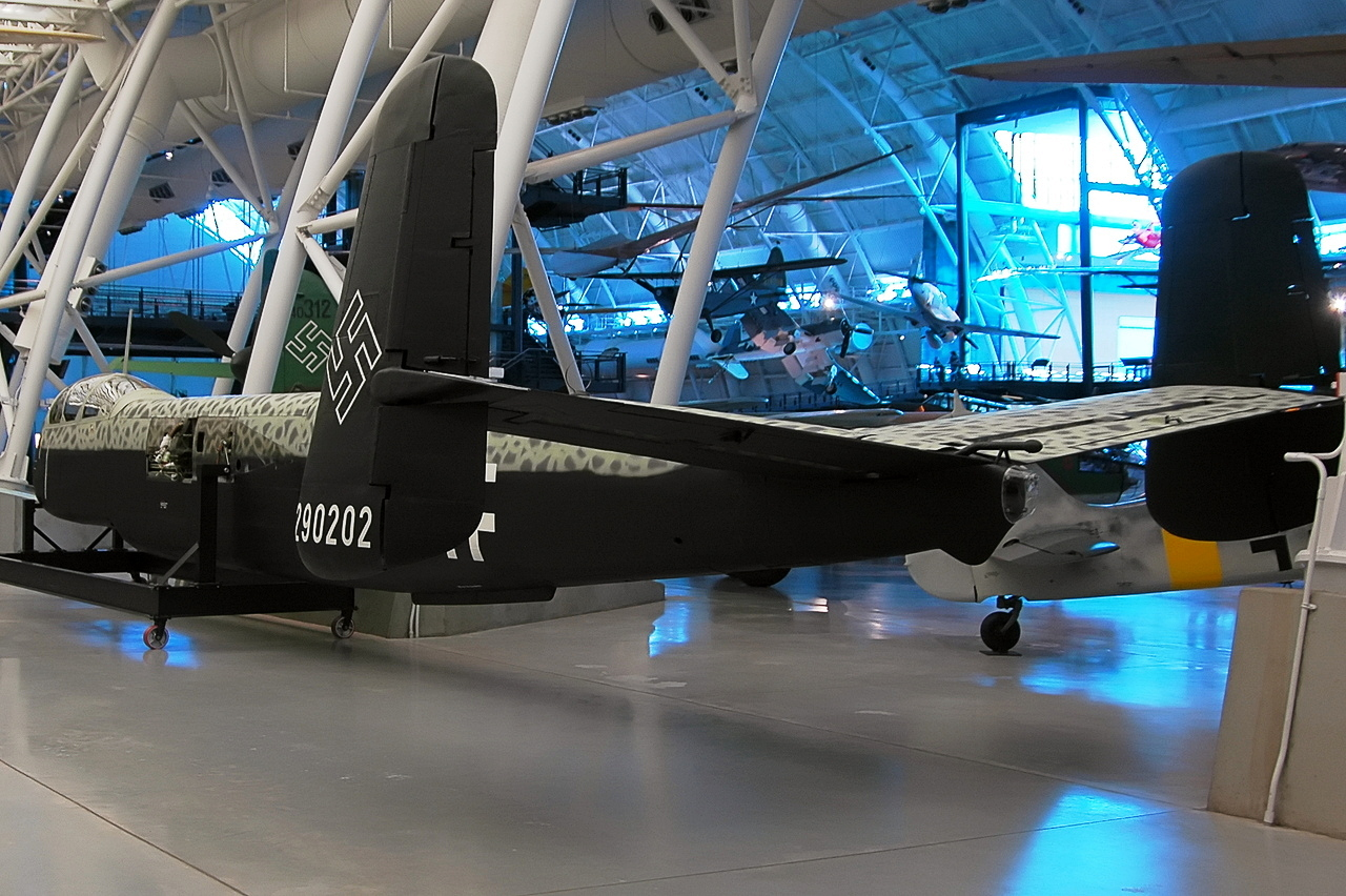 He 219 A-2